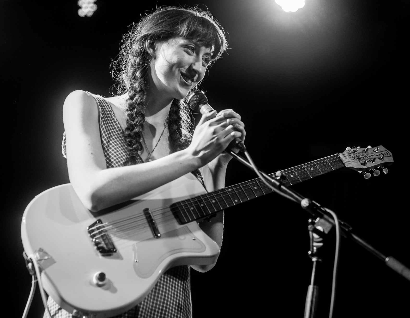 Frankie Cosmos performing with Porches at The Sinclair in Cambridge, Massachusetts